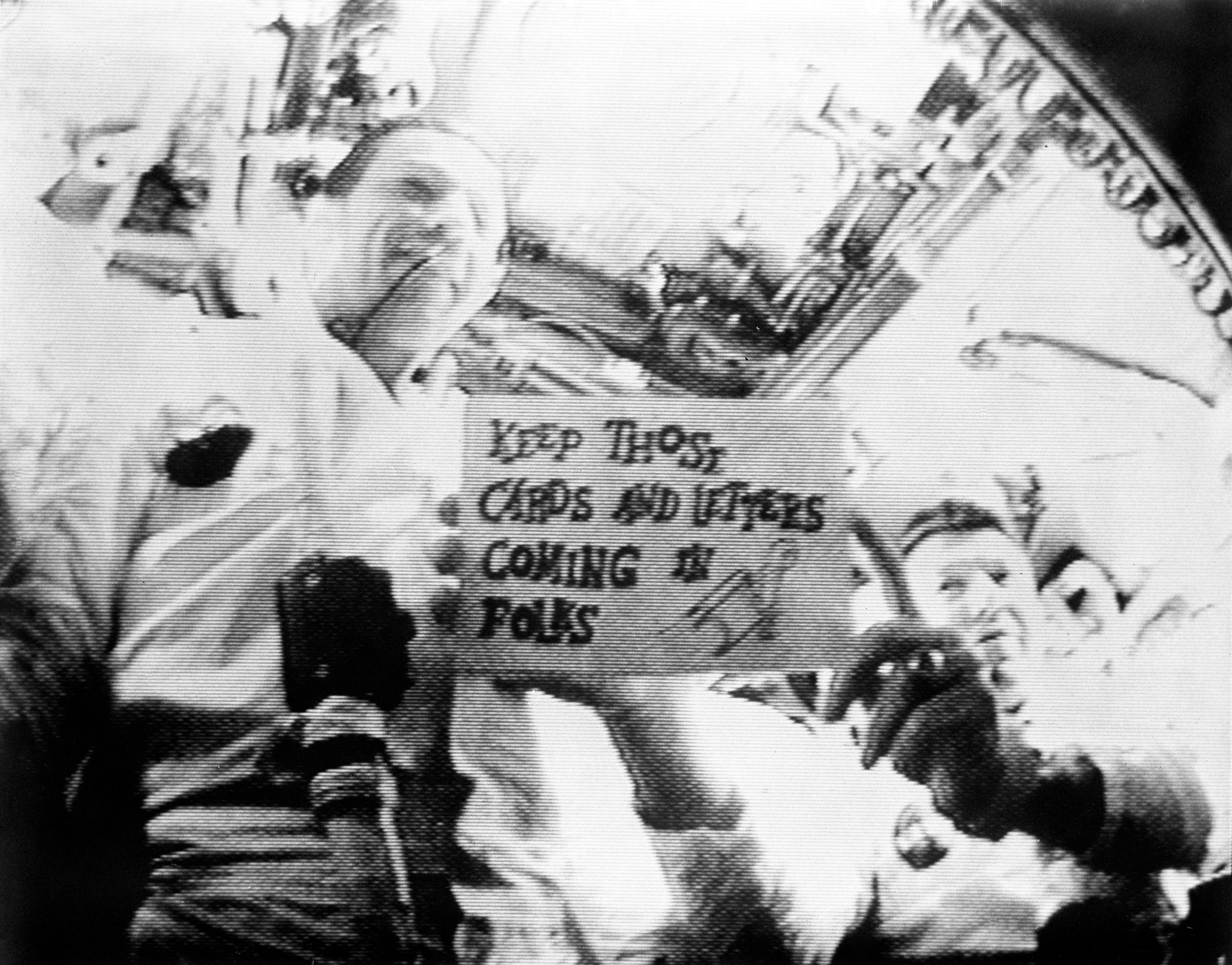 Astronauts Walter M. Schirra Jr. (on right), mission commander; and Donn F. Eisele, command module pilot; are seen in the first live television transmission from space. Schirra is holding a sign which reads, "Keep those cards and letters coming in, folks!" Out of view at left is astronaut Walter Cunningham, lunar module pilot.